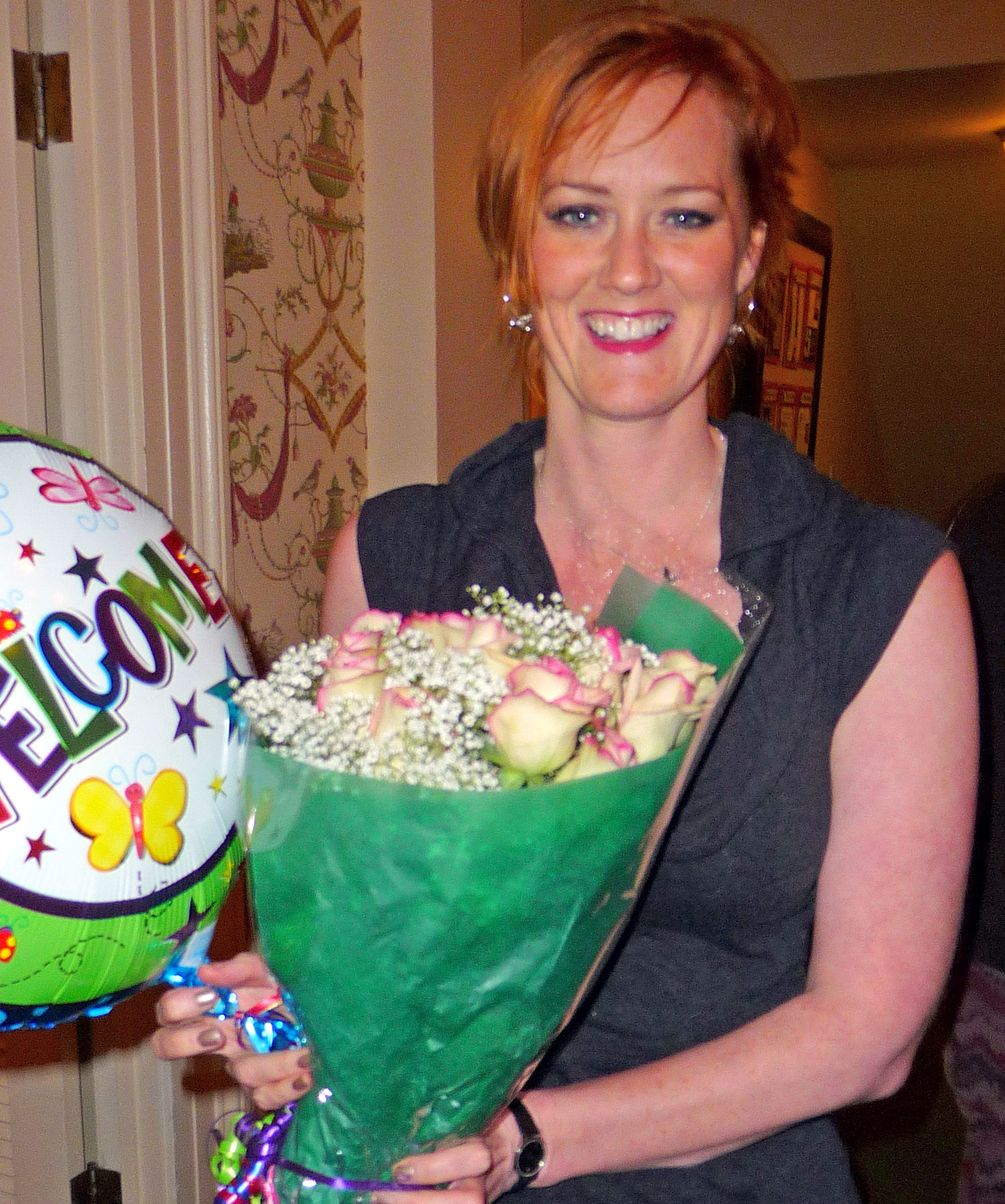 Heather Brooke at Washington Coalition for Open Government/WashCOG Conference, January 2010.